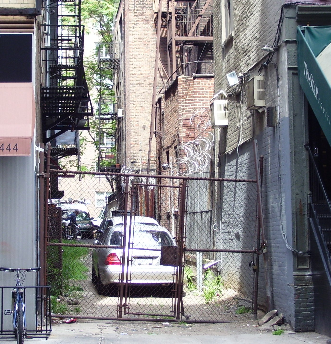 Broadway Alley in Manhattan, New York City, on East 26th Street between 3rd and Laxington Avenues, running uptown to 27th Street -- nowhere near Broadway, which is three blocks away. It is reputedly the last unpaved street in Manhattan. Alleys are rare in Manhattan.